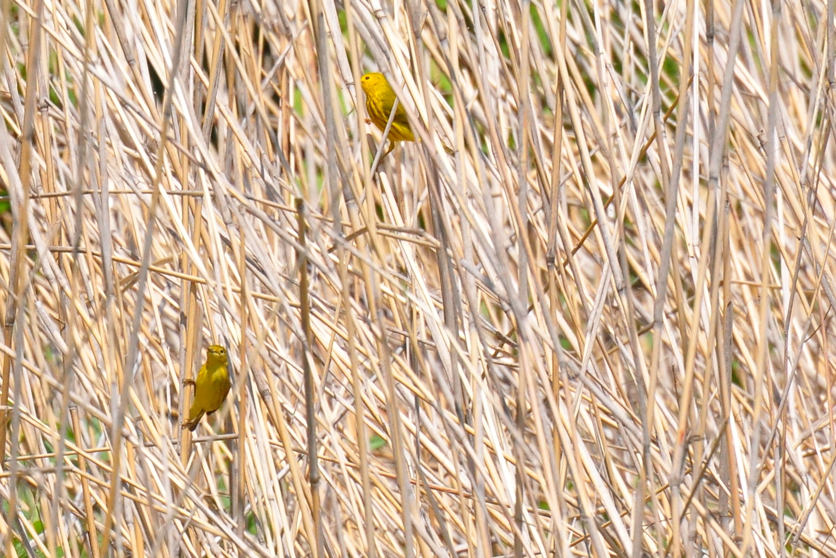 Yellow Warblers (Setophaga aestiva) in reedbed, Mill Creek Streamway Park, Eastern Kansas (USA)